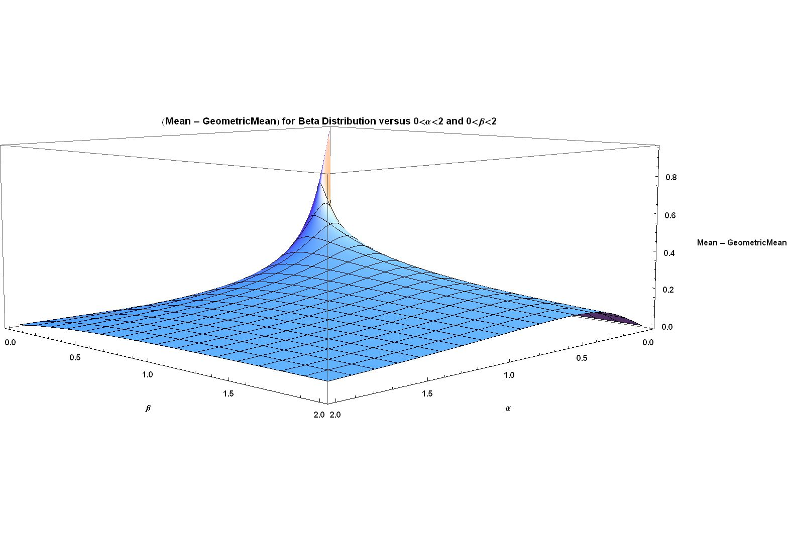 (Mean - GeometricMean) for Beta Distribution versus alpha and beta from 0 to 2 - J. Rodal